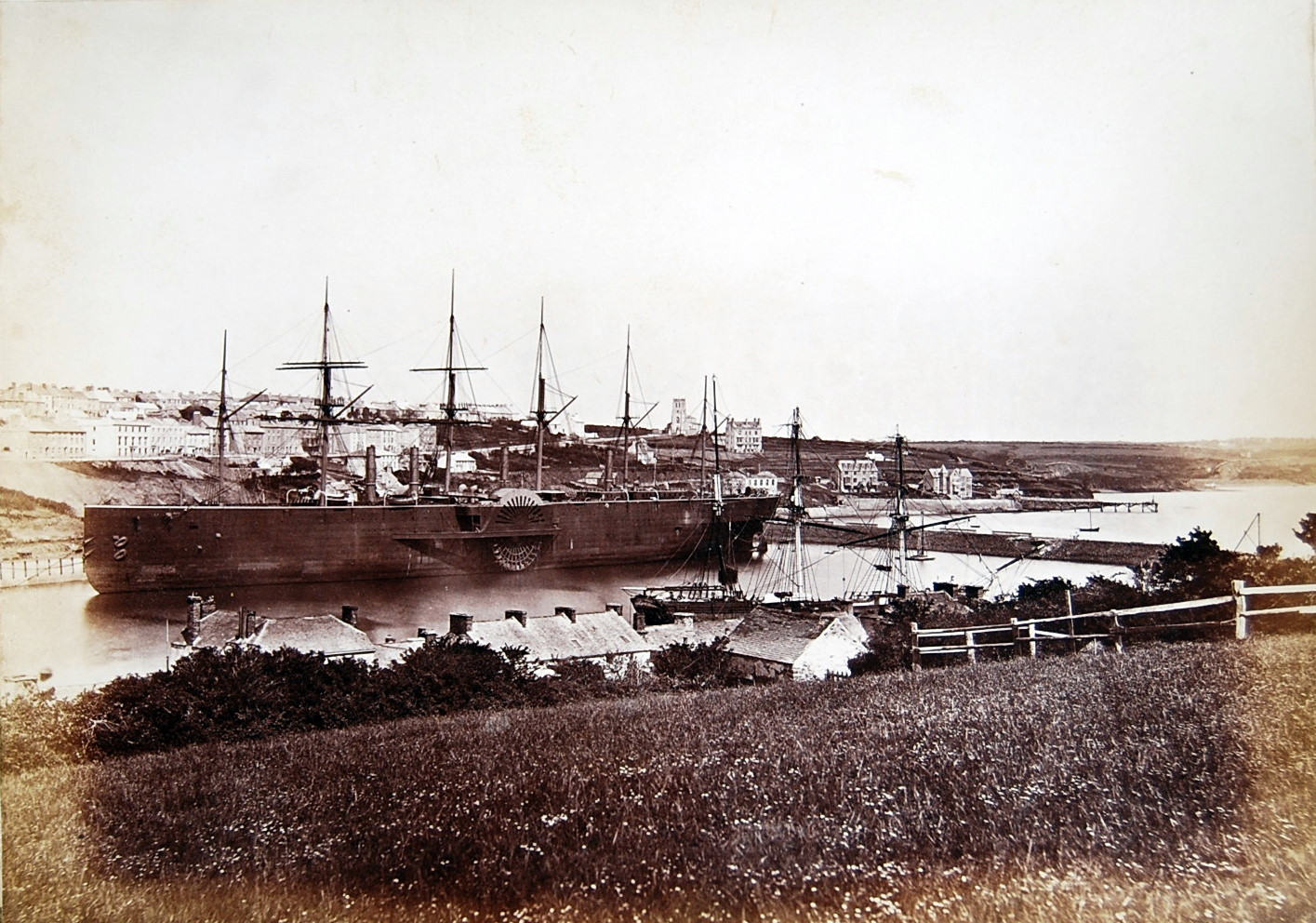 Photograph of Great Eastern at Milford Haven, 1870's.